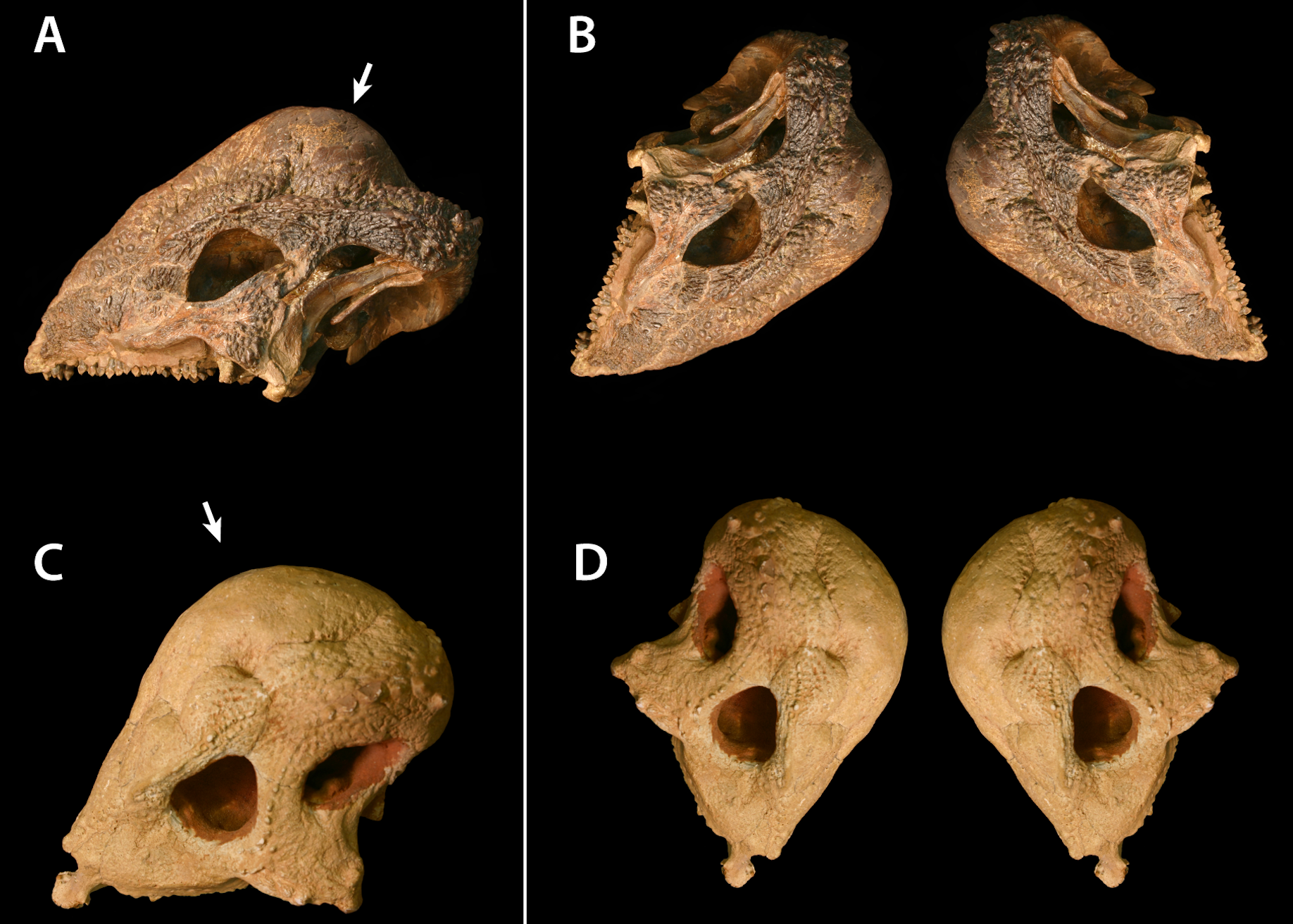 Apex of frontoparietal dome of UA2 (Stegoceras validum) (A), and cranial orientation during combat (B); Apex of frontoparietal dome of ZPAL MgD-I/104 (Prenocephale prenes) (C), and cranial orientation during combat (D).